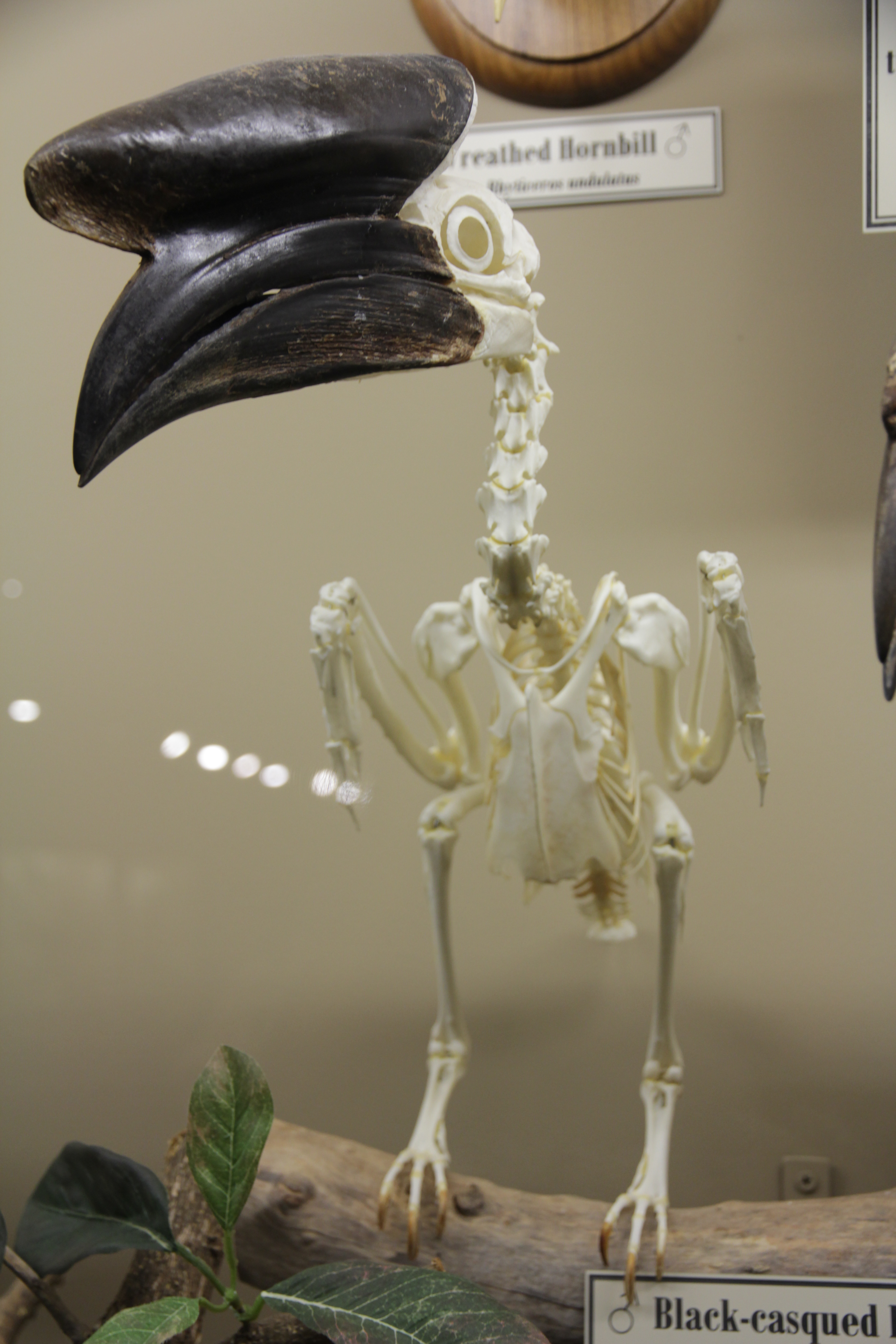 Skeleton of a black-casque hornbill's skeleton (male) on display at the Museum of Osteology